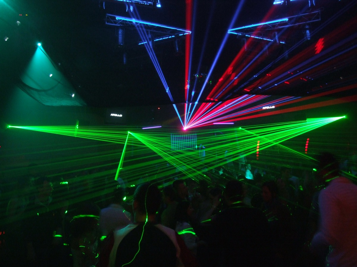 Laser show performed by Vizual in Sucha, south-west of Krakow, Poland.